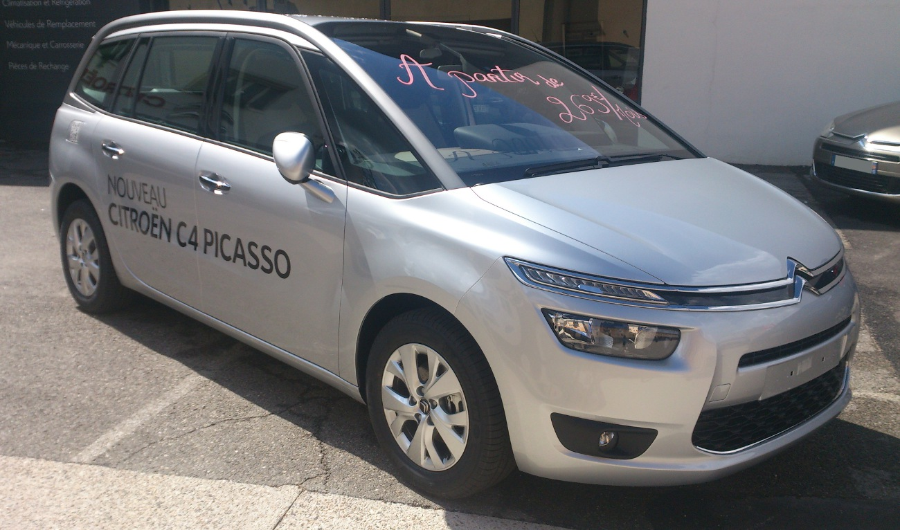 Citroën Grand C4 Picasso II photographed in Apt, France.